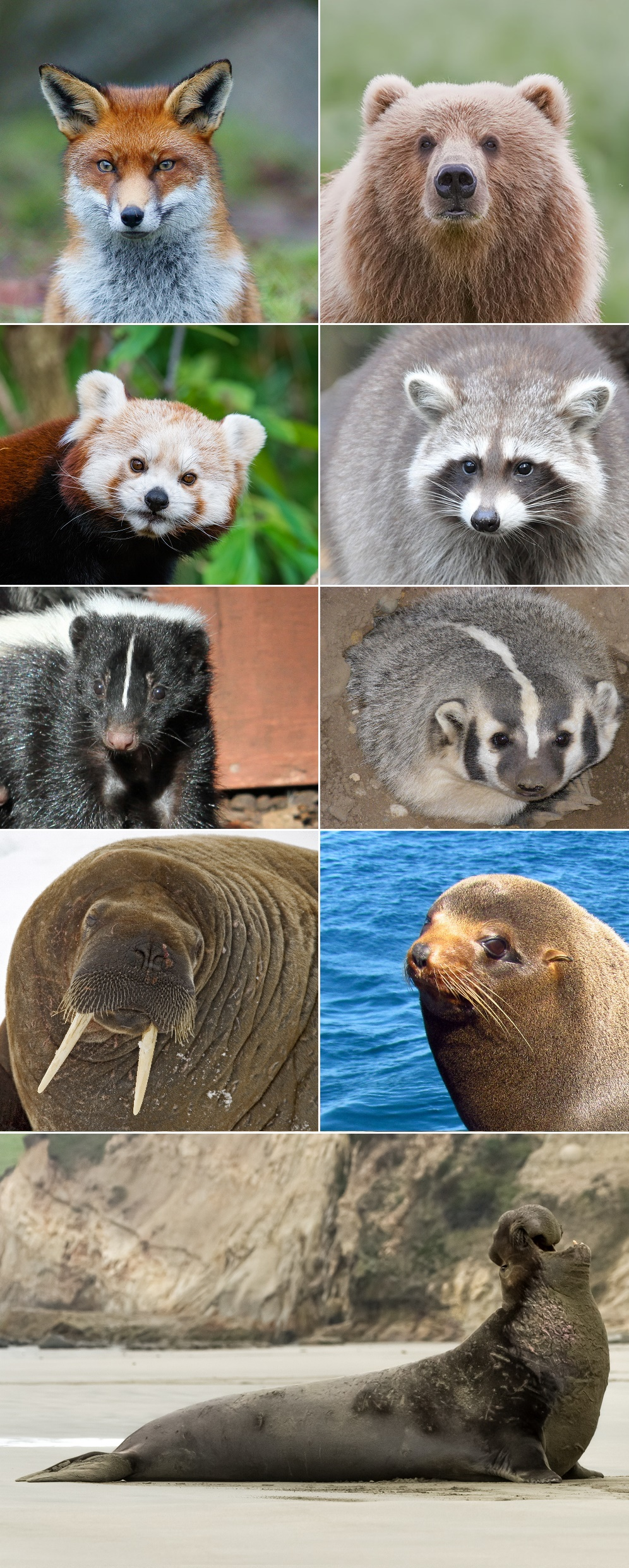 Portraits of various caniforms